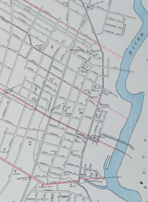 1905 map of Hackensack Central Business District showing rail lines and stations of Erie Railroad and NYS&W Railroad